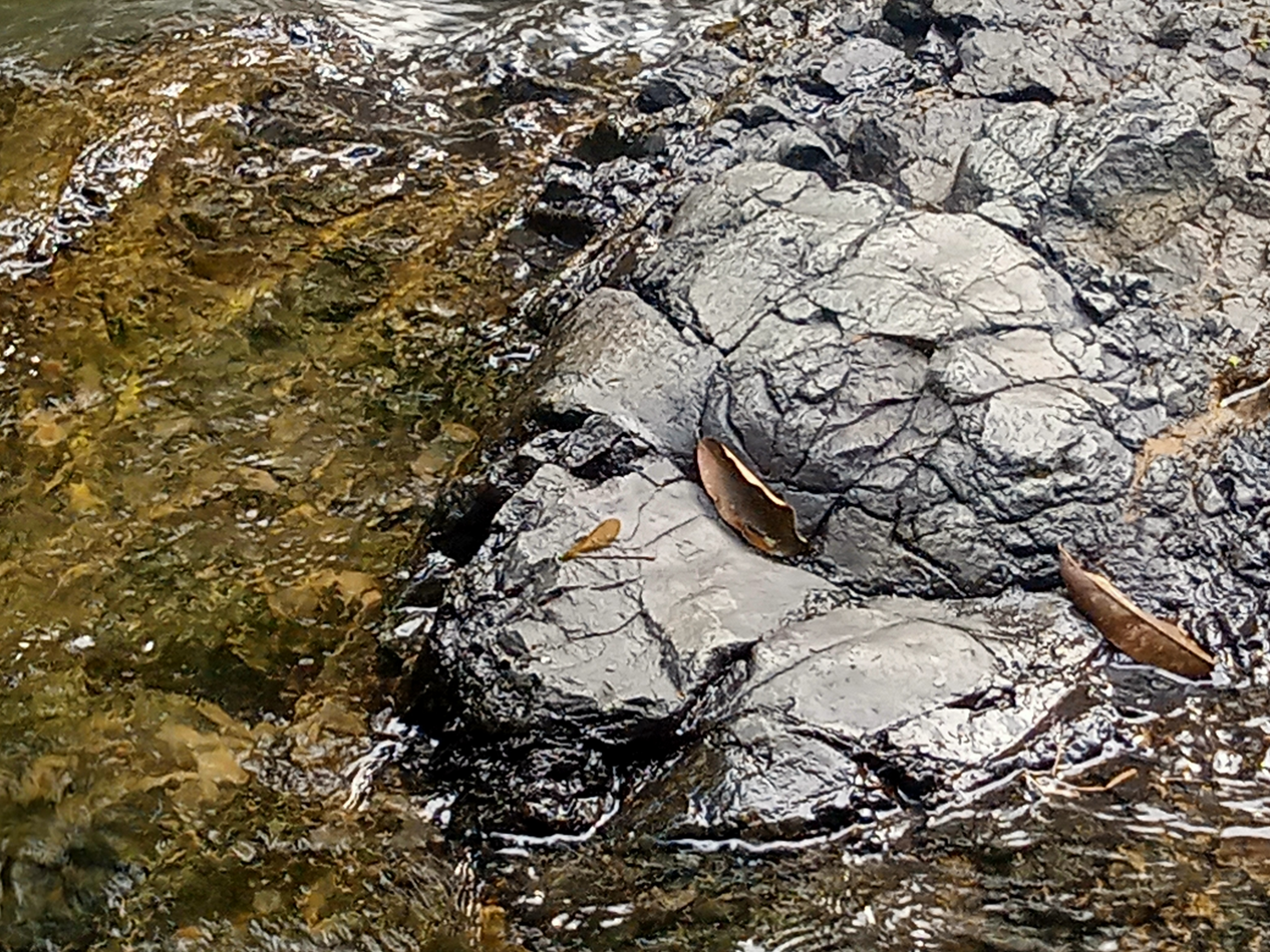 The Meratus Mountains are composed of Ultramafic Rock Groups, malihan, melange and breakthrough (Ophiolite series) which are estimated to be Yura (150–200) million years ago to the Early / Lower Cretaceous (100-150) million years ago.